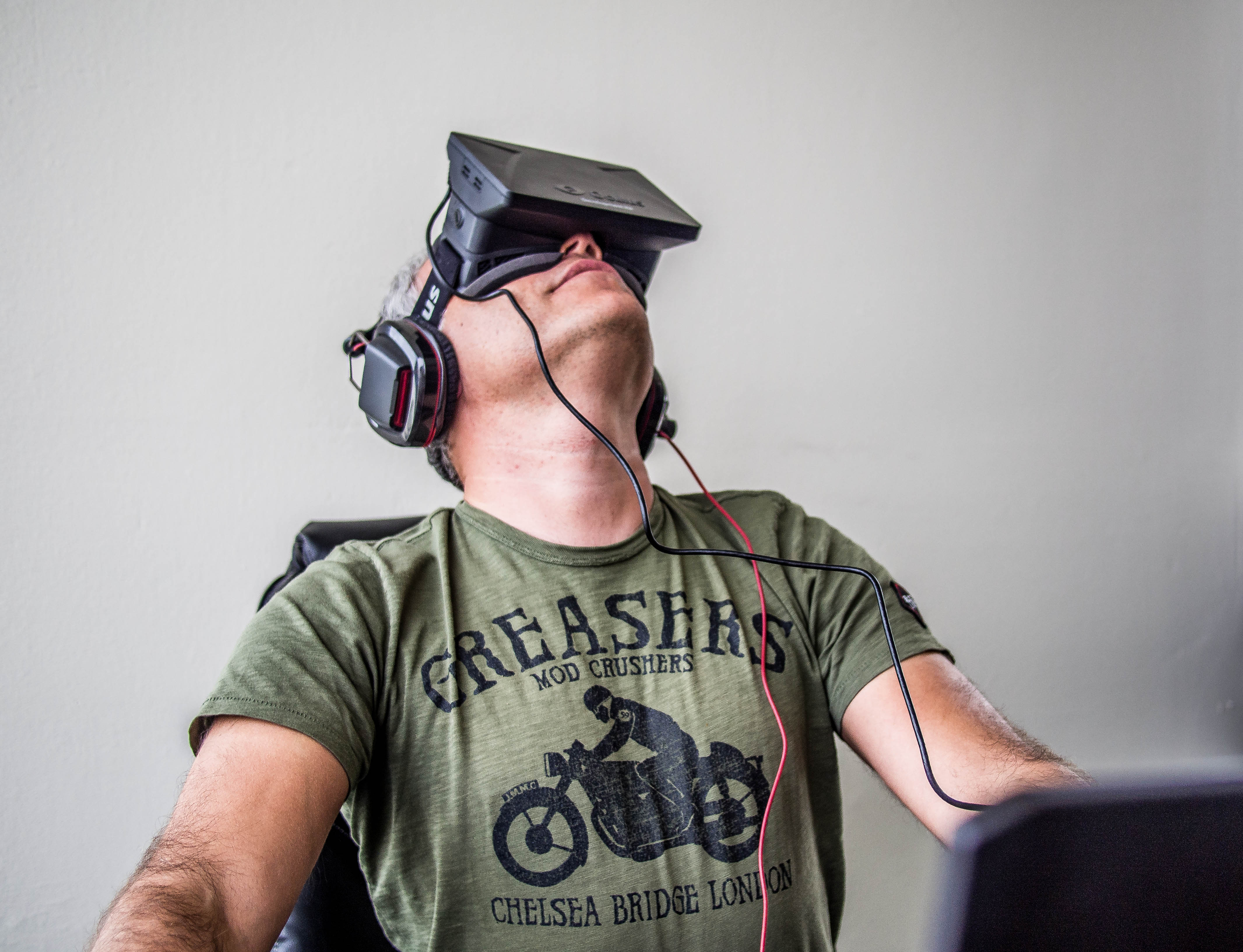 Sergey Orlovskiy tests Oculus Rift.